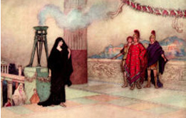 Illustration by Warwick Goble for Troilus and Crysede in The Complete Poetical Works of Geoffrey Chaucer, published by The MacMillan Company (New York) , 1912.